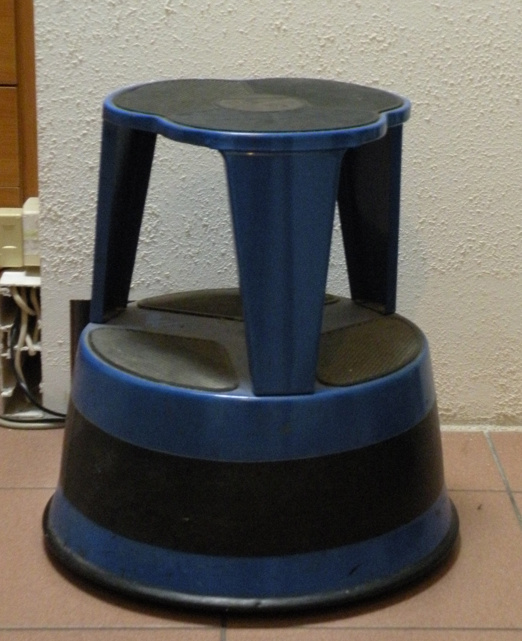 Mobile stepstool called "Elefantenfuss", an auxiliary object to reach book shelves